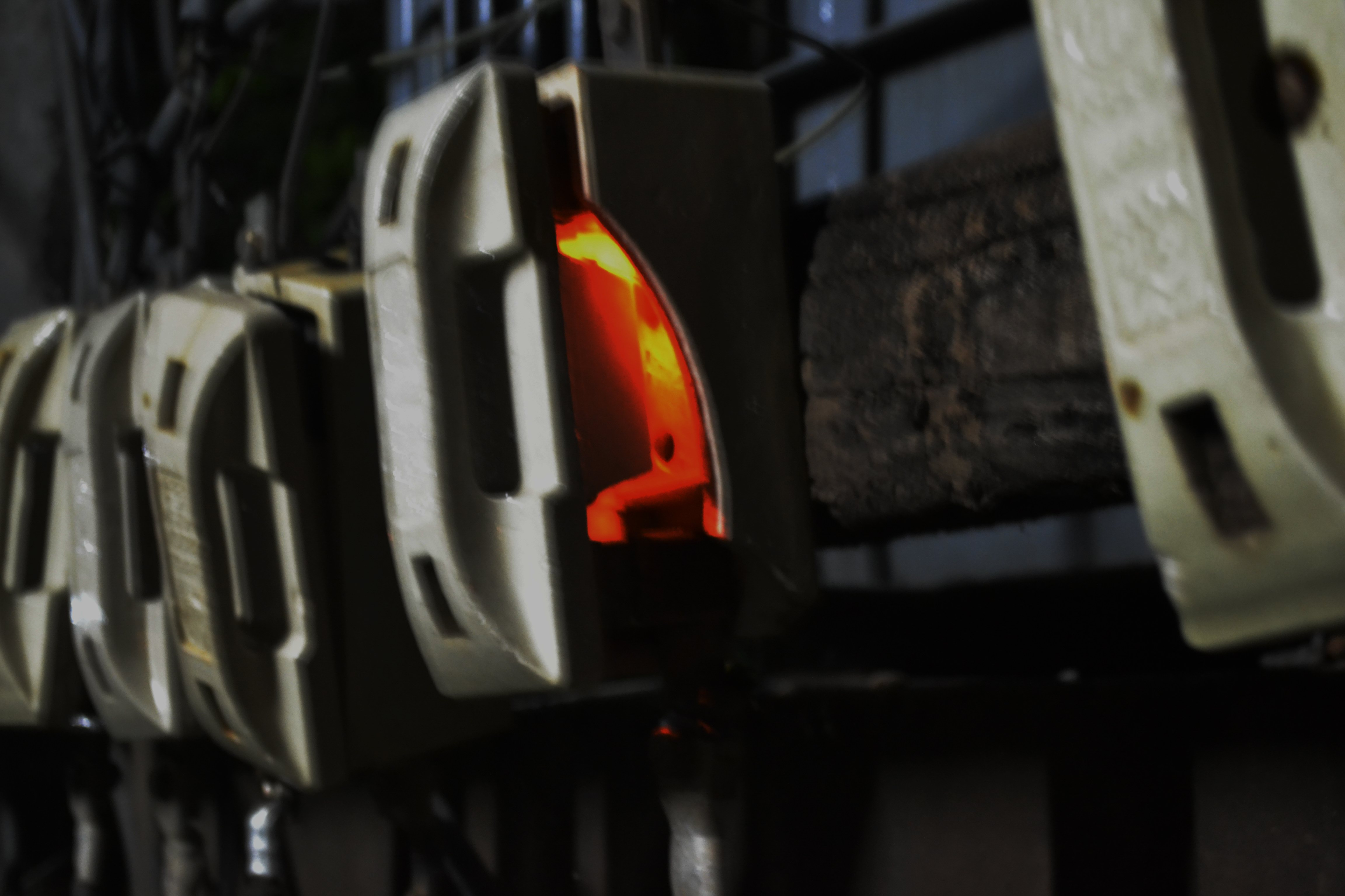 A continuously arcing fuse unit that is part of the secondary circuit of a 160 KVA 11KV/400V Power distribution transformer. The arcing is caused by both a broken fuse holder as well as its improper mounting. Such arcs can cause heavy and intermittent voltage fluctuations, severe phase imbalance and dangerous electric noise throughout the distribution network, rendering electric, electronic, computer and telephony equipments permanently defective.